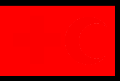 This flag was used in time of Vorkuta uprising only in 3 camp division of Rechlag (Rechnoy camp)